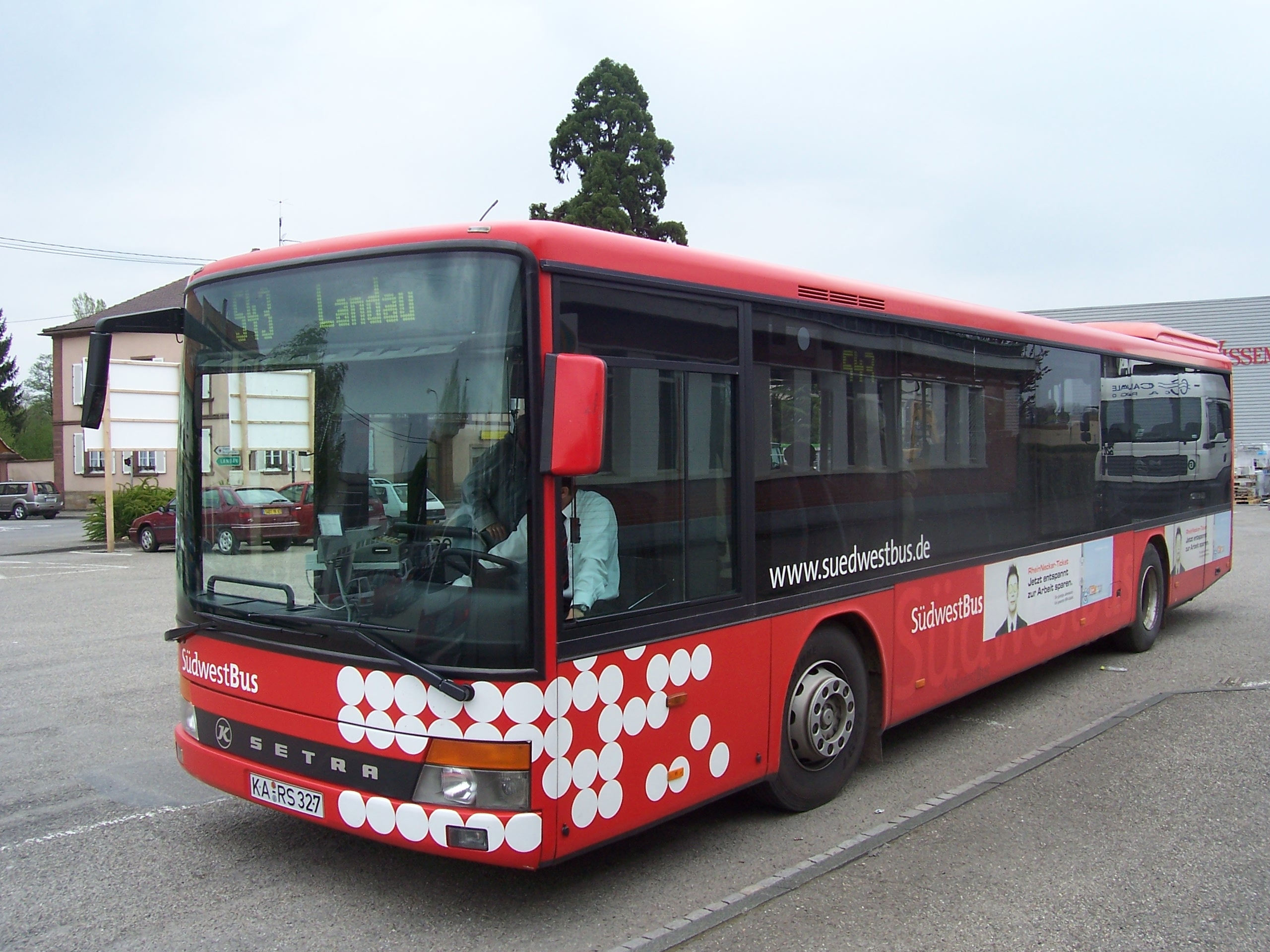 A Setra S 315 NF bus owned by SüdwestBus in Wissembourg, france.